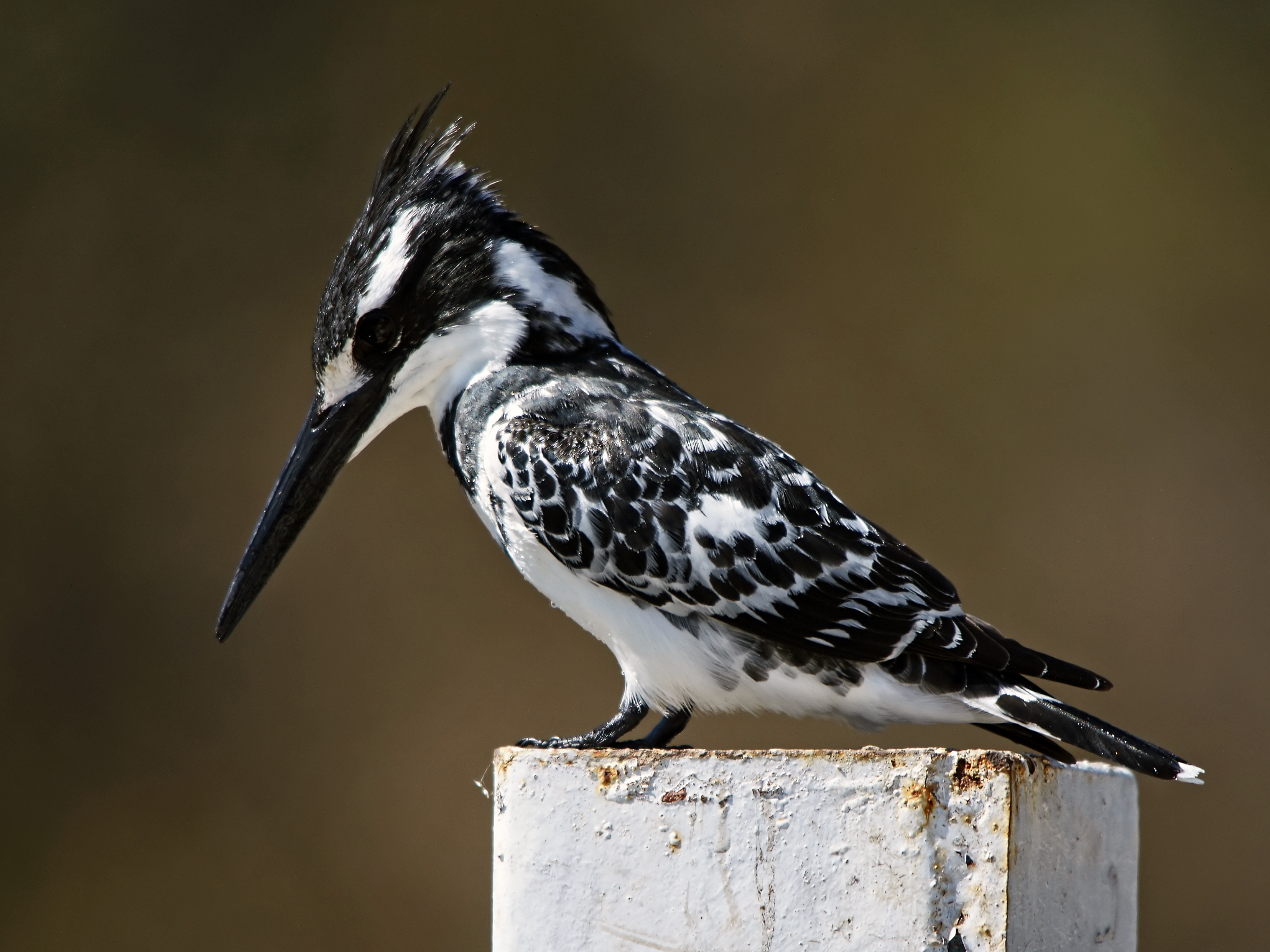 Pied Kingfisher at Mosi-oa-Tunya National Park near Livingstone, Zambia